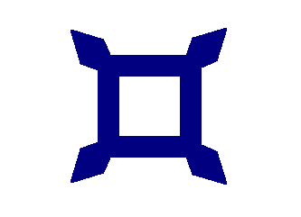 X Corps, Department of South, 3rd Division Badge